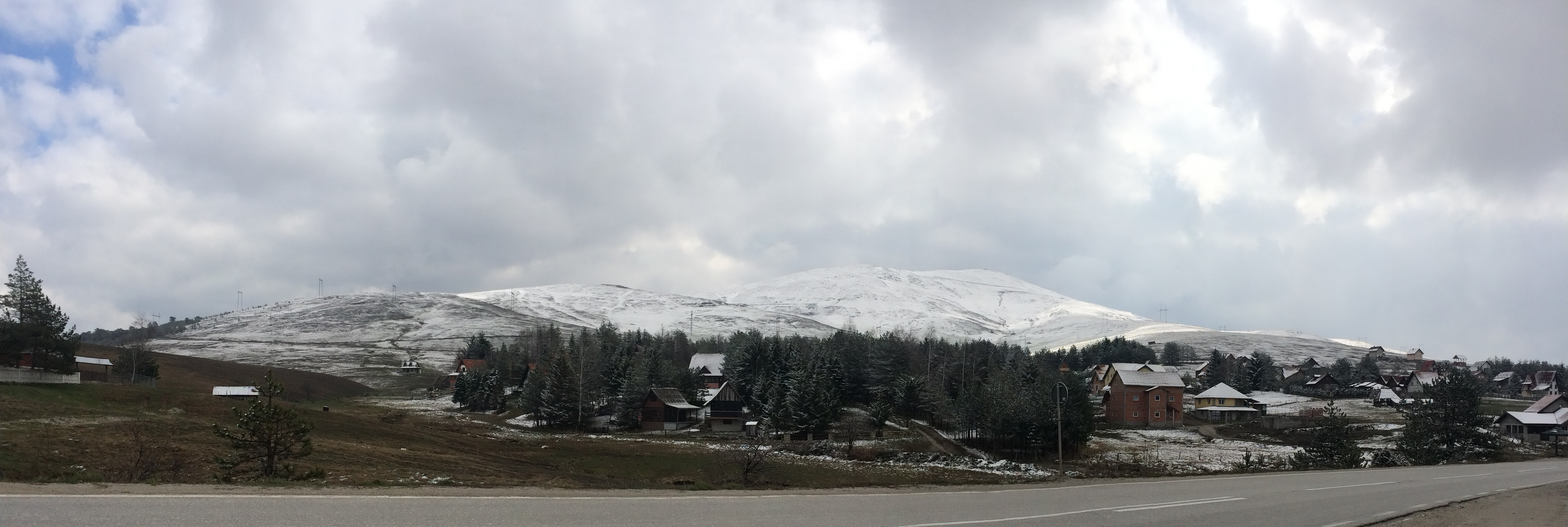 Image from the southern parts of Zlatibor winter sports mountain area, near Ljubiš along the E763, western Serbia